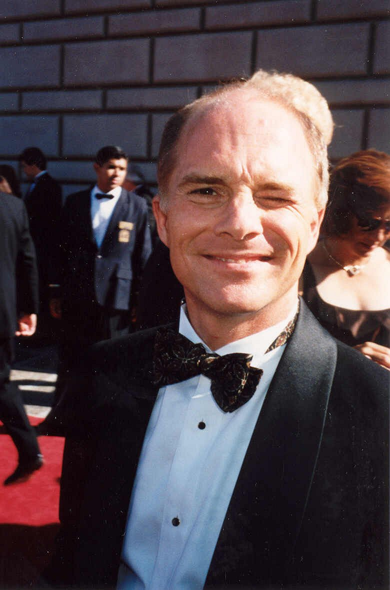 Photo of actor Dan Butler outside the Emmy Awards ceremony.